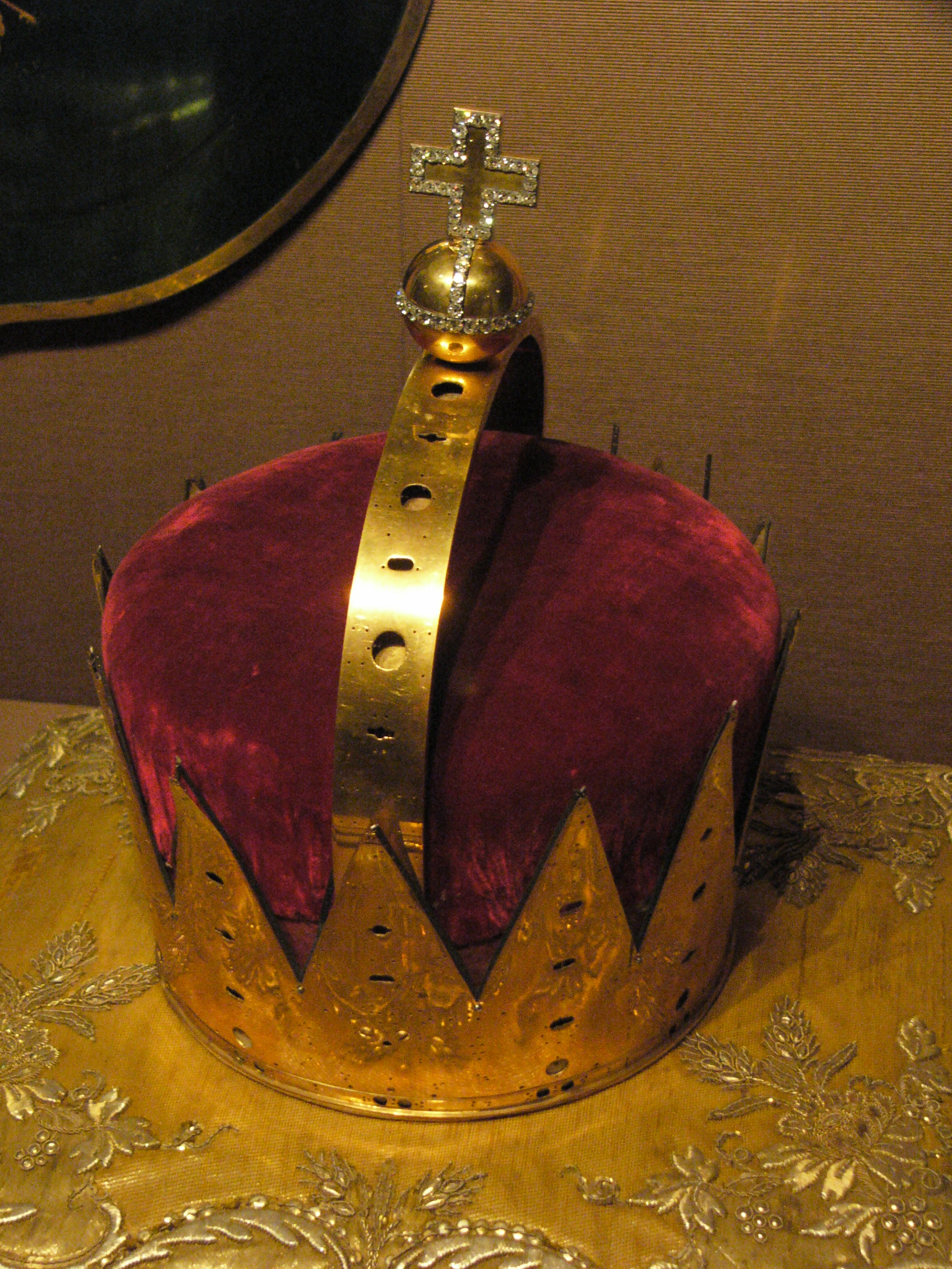 crown of Joseph II, Holy Roman Emperor in Schatzkammer in Wien (Austria).